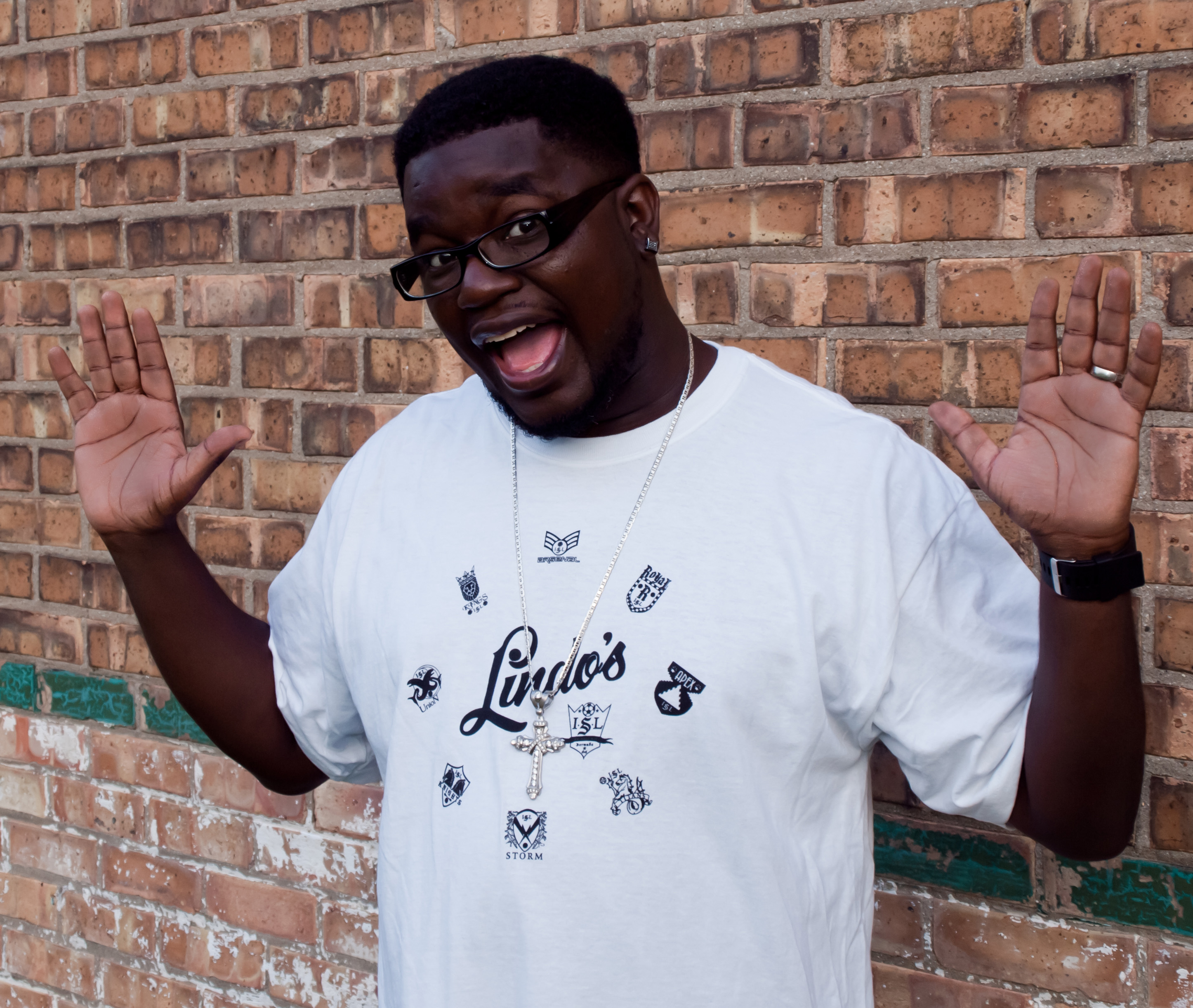 Lil Rel Howery wearing a t-shirt standing in front of a brick wall with his hands up and his mouth open